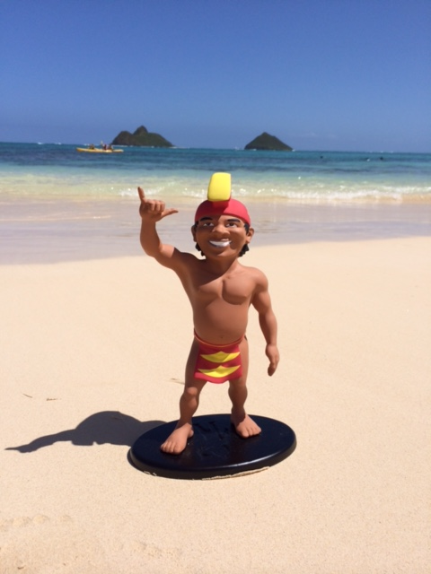 This is a photo of the menehune statue sold by Menehune Hale ( in front of the Mokes in Kailua.